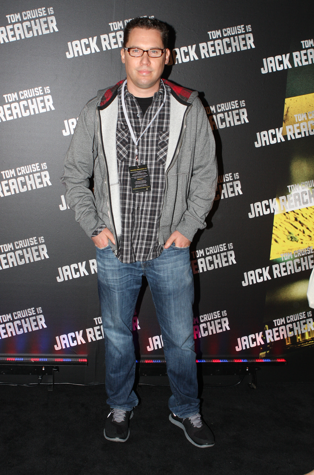 Bryan Singer 2012 at Jack Reacher movie premiere at Event Cinemas Bondi Junction, Sydney, Australia...